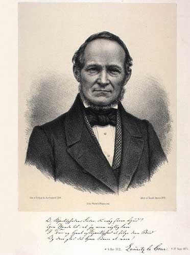 Lauritz Ulrik la Cour (1802-1875), Danish farmer, estate owner, and politician, MP